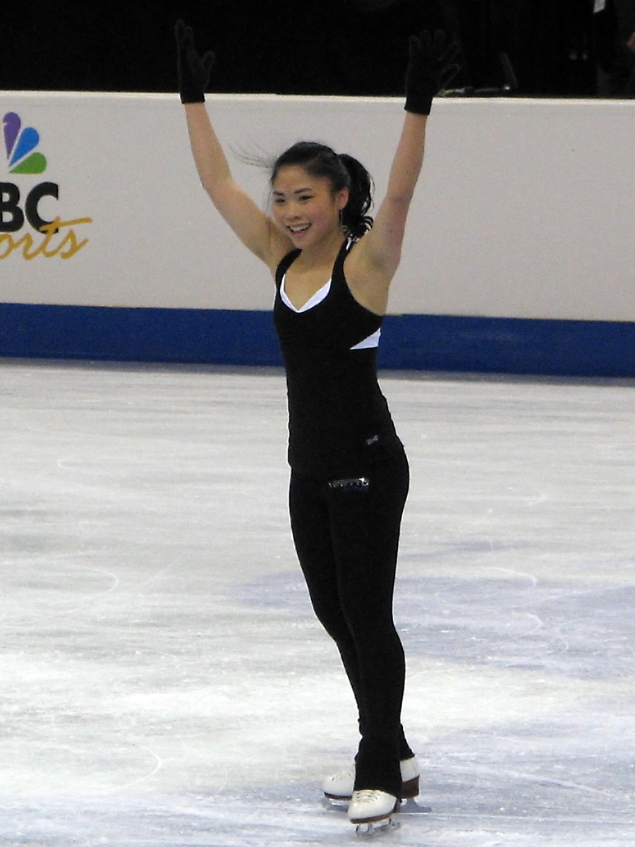 Beatrisa (Bebe) Liang at the 2008 U.S. Figure Skating Championships in St. Paul, MN.